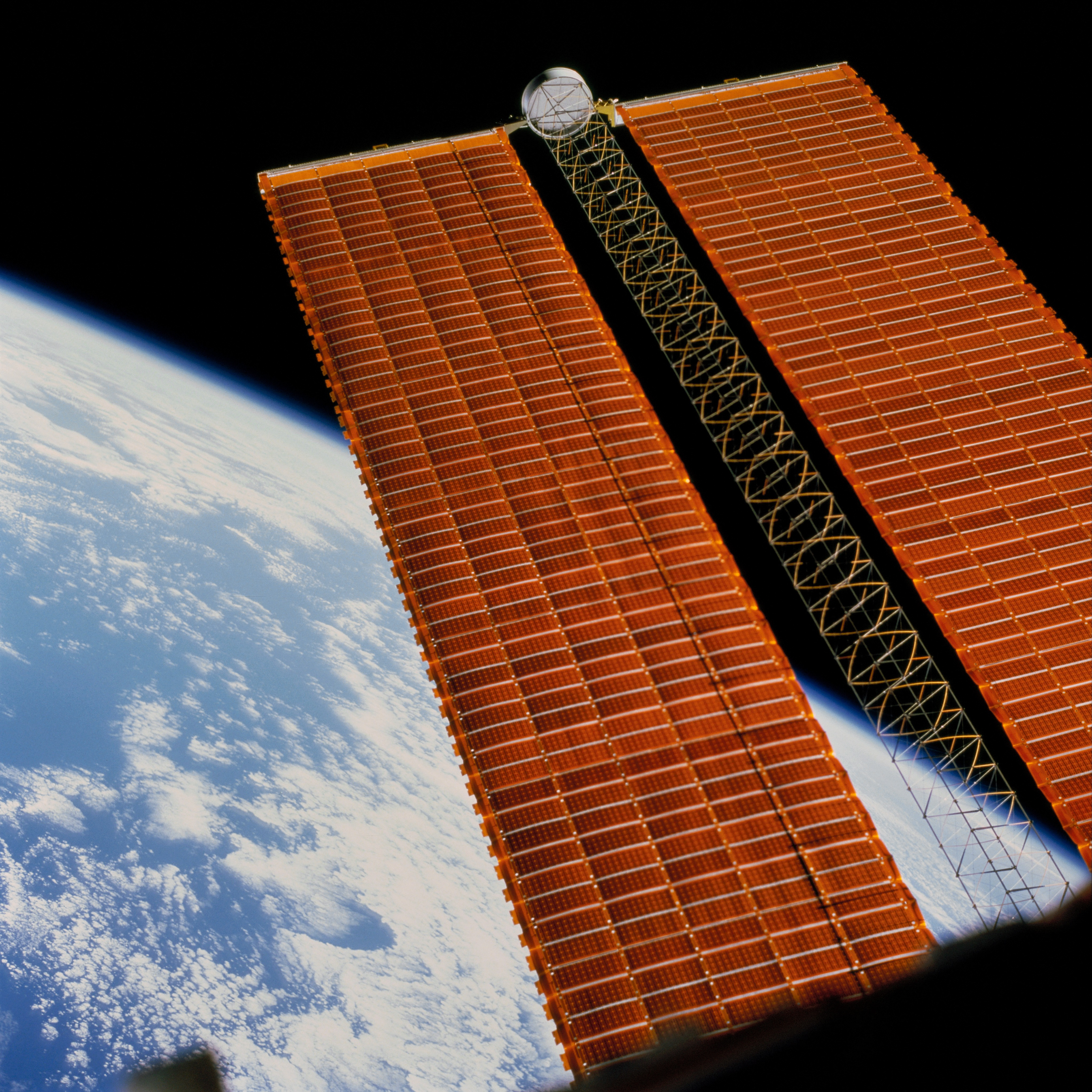 picture of the slack blanket of the P6 solar arrays